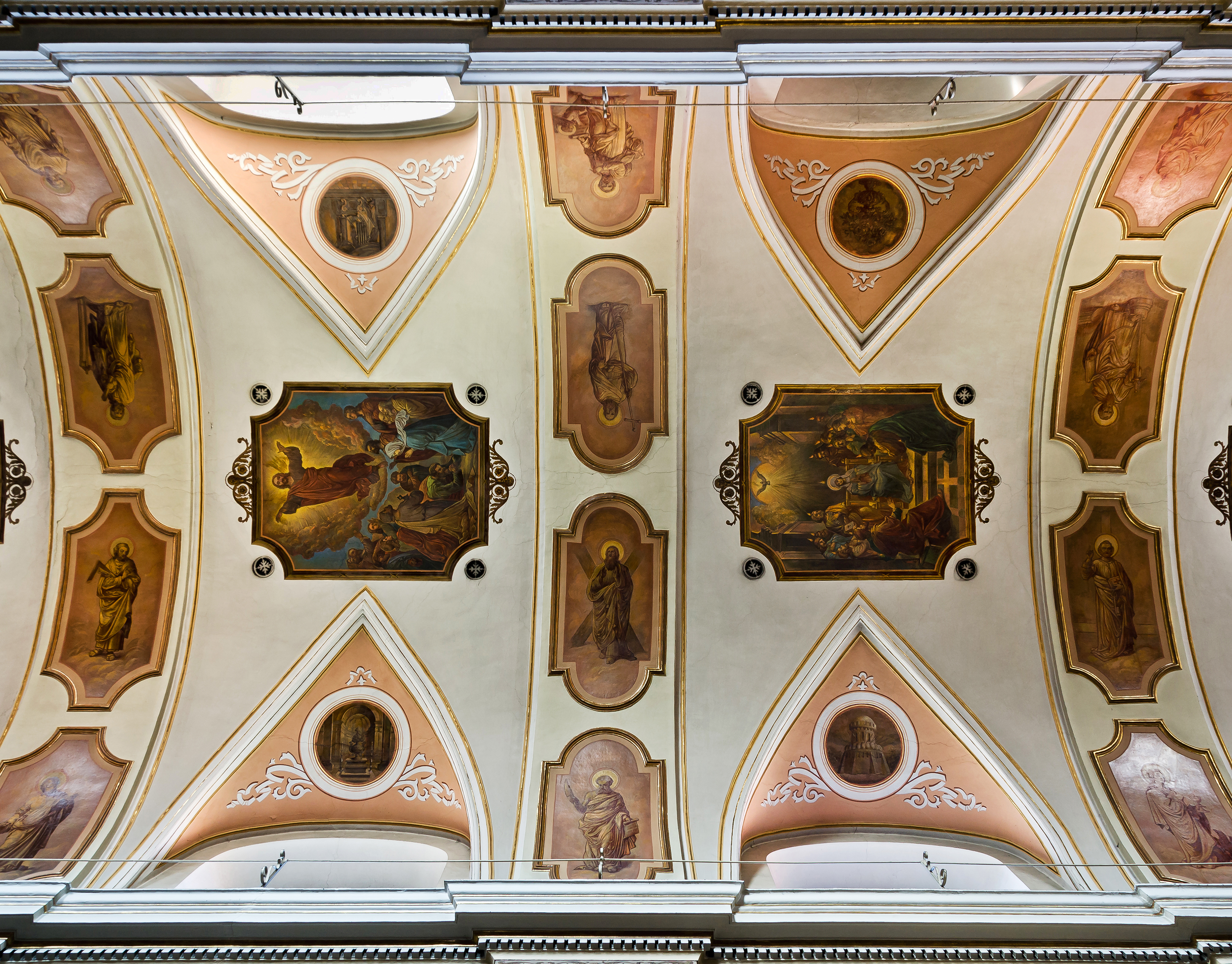 Our Lady of the Rosary church in Kłodzko